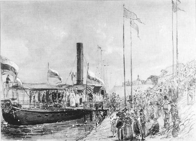 The baptism of steamer "Wloclawek", 02.06.1853. Drawing was commissioned by Andrzej Zamoyski.